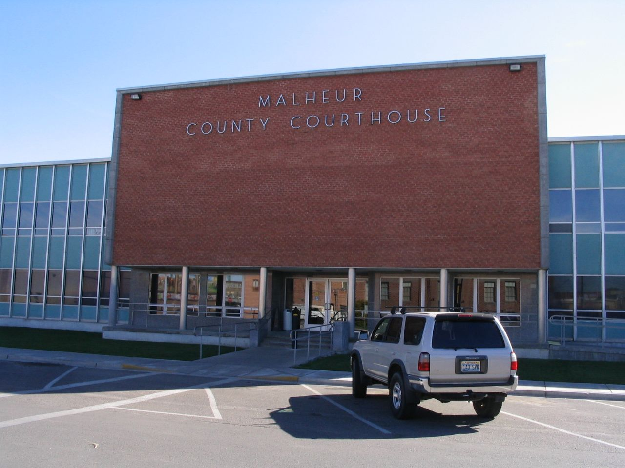 Vale is a city in Malheur County, Oregon, United States, about 12 miles (19 km) west of the Idaho border. It is at the intersection of U.S. Routes 20 and 26, on the Malheur River at its confluence with Bully Creek. Vale was selected as Malheur's county seat in 1955, 68 years after the county was founded. As of the 2010 census, the city had a total population of 1,874, down from 1,976 in 2000. Vale is part of the Ontario, OR–ID Micropolitan Statistical Area. The community was the first stop in Oregon along the Oregon Trail. A post office with the name of Vale was established in February 1883, and the community was incorporated by the Oregon Legislative Assembly on February 21, 1889.[8] Originally incorporated as the Town of Vale, it became the City of Vale in 1905.